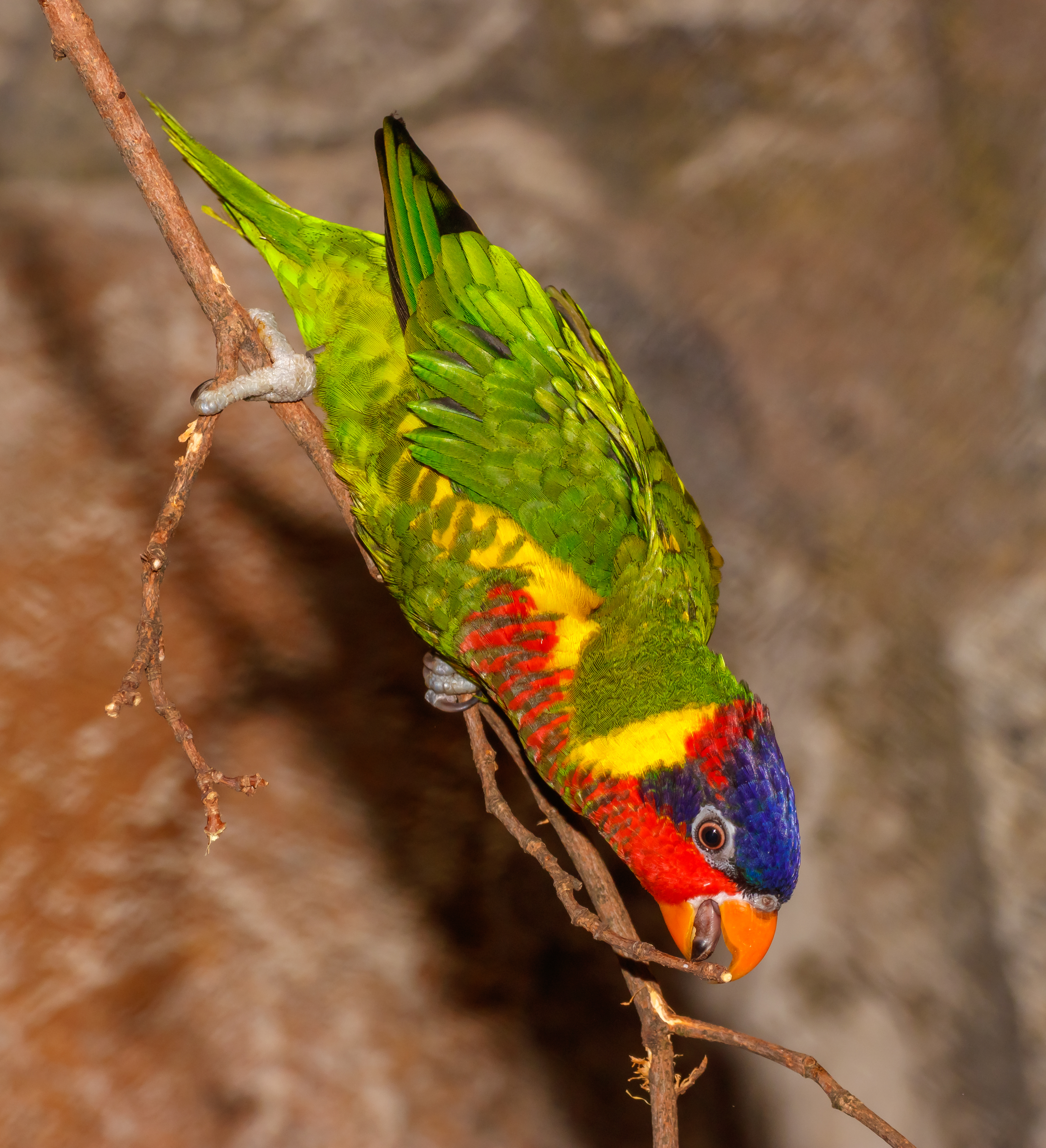 Trichoglossus ornatus (Linnaeus, 1758), Ornate lorikeet; Karlsruhe Zoo, Karlsruhe, Germany.